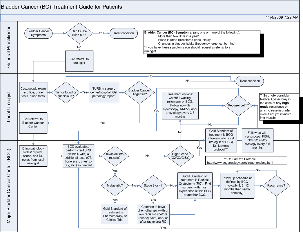 Bladder cancer treatment flowchart